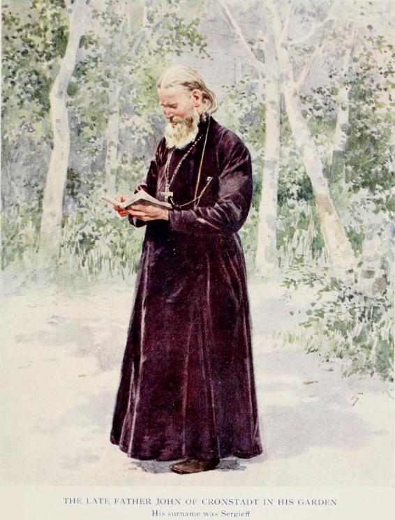 The late Father John of Cronstadt in his garden. Painted by Frédéric de Haenen